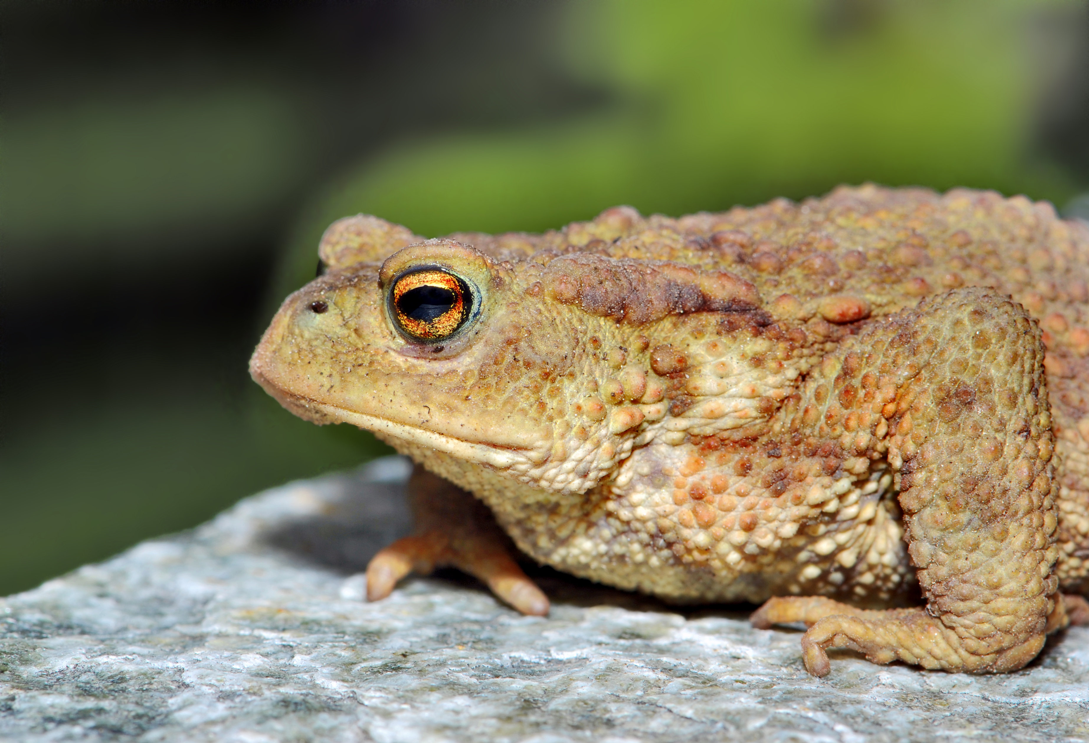 The common toad (Bufo bufo) or European toad is widespread throughout Europe, with the exception of Ireland and some Mediterranean islands. Its easterly range extends to Irkutsk in Siberia and its southerly range includes parts of northwestern Africa in the northern mountains of Morocco, Algeria, and Tunisia.